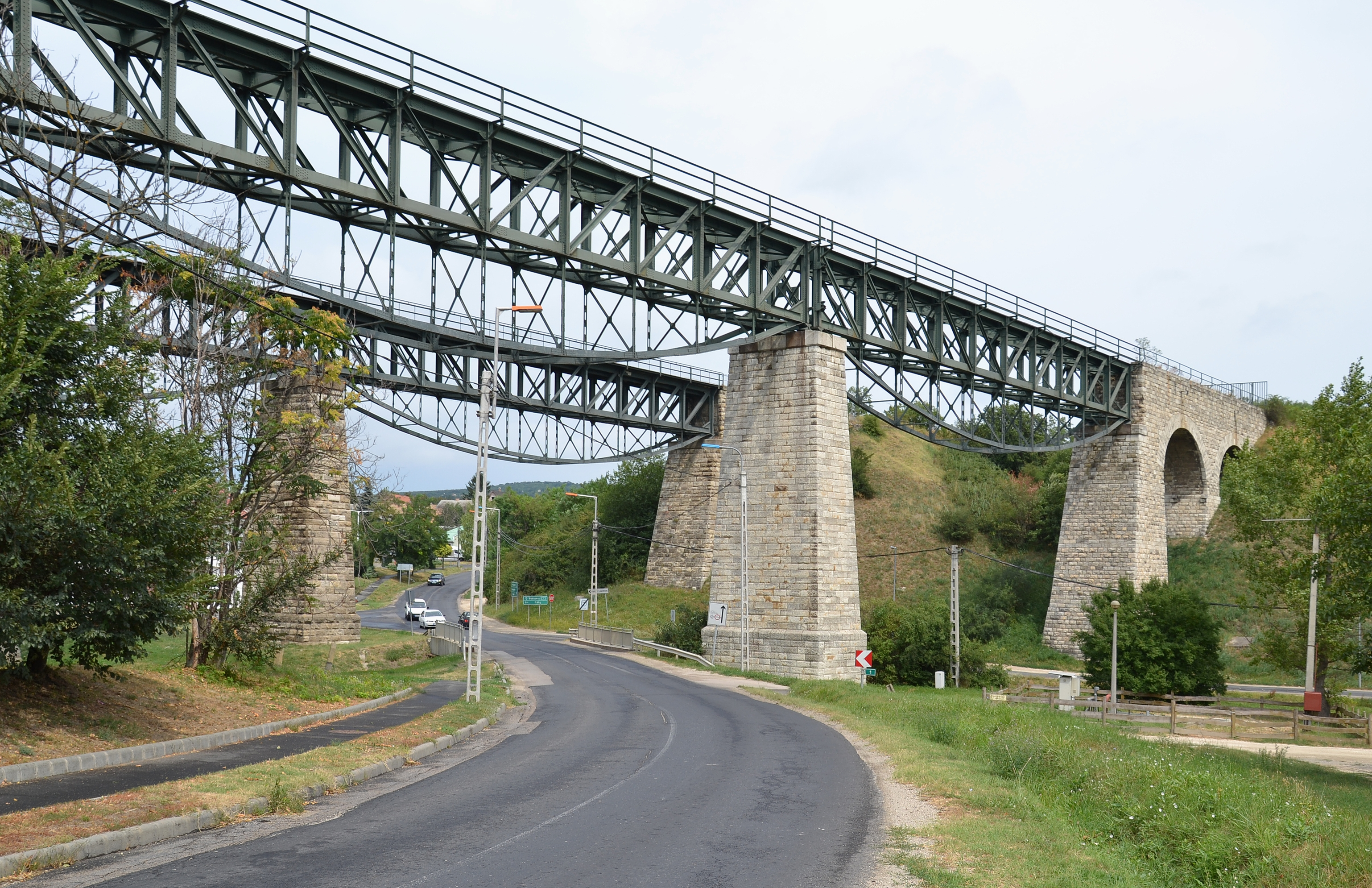 Biatorbágy, Hungary - Rail Bridge